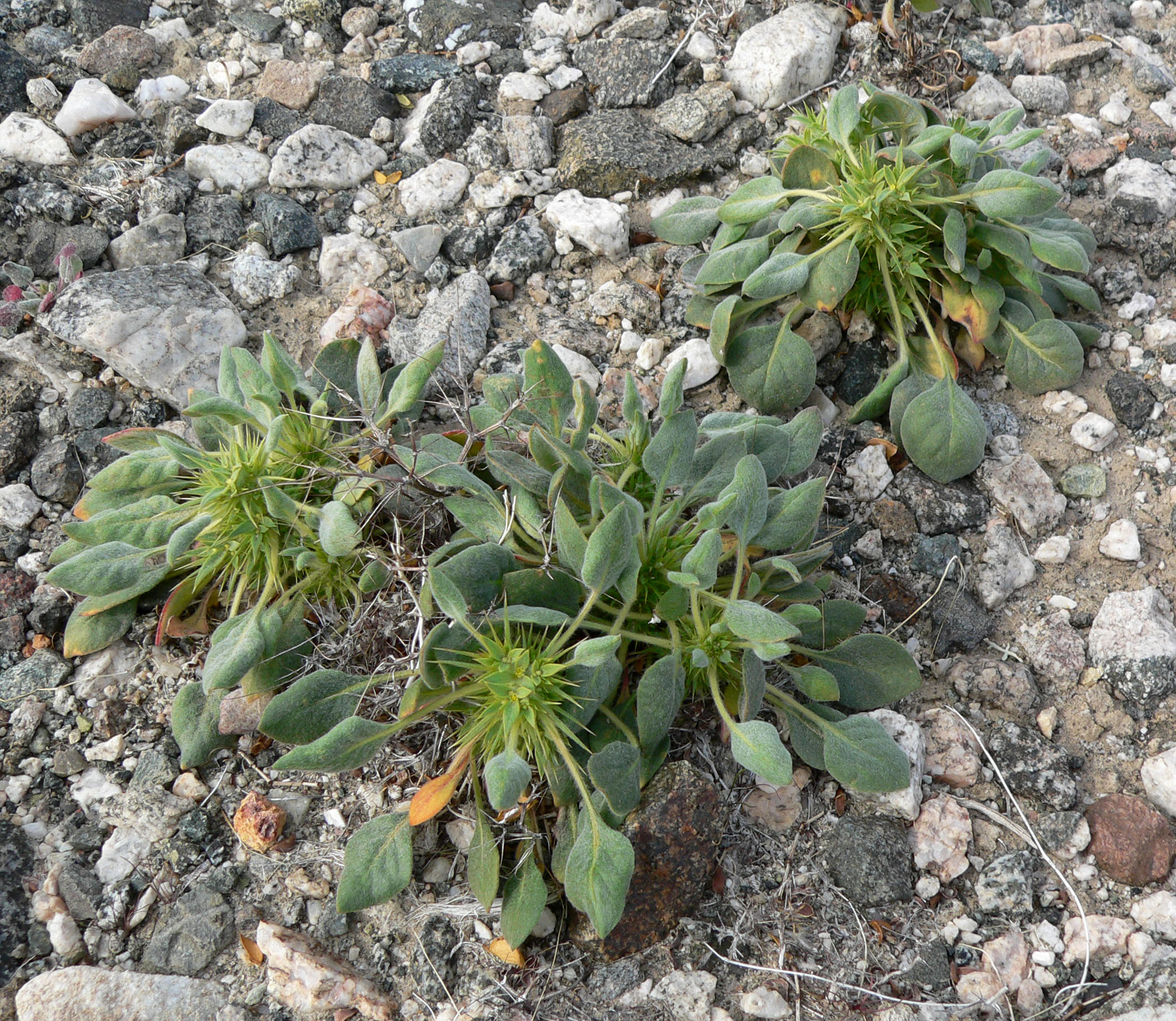 Chorizanthe rigida near the Salt Spring Hills at the southern end of Death Valley, California